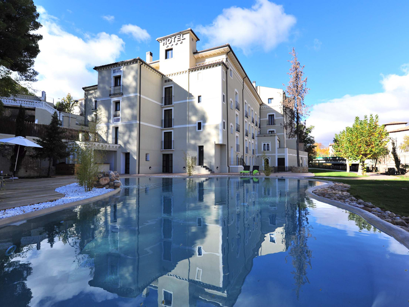 Sercotel Hotel Balneario Alhama de Aragón Facade's in Zaragoza province (Spain).